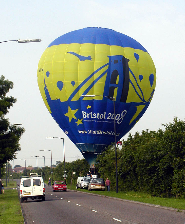 Although this looks like a picture of a forced landing near a road, in fact the landing was on the other side of the hedge. Here's the story: A Cameron Z105 balloon has landed gently in a field (Westerleigh Common) in Yate, Bristol, England. The recovery vehicle could not get access to the field so the crew have hopped the balloon (by brief firings of the burners) over the boundary hedge, onto the side of the road (Westerleigh Road). In this picture they are about to hop it across the road for deflation on a grassy area to the left of the white van.